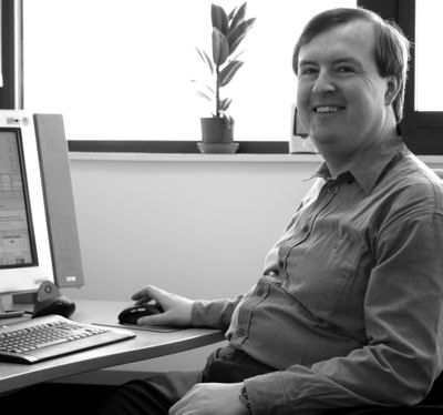 The photo of Prof. David T. Jones, will be used for his Wikipedia Article